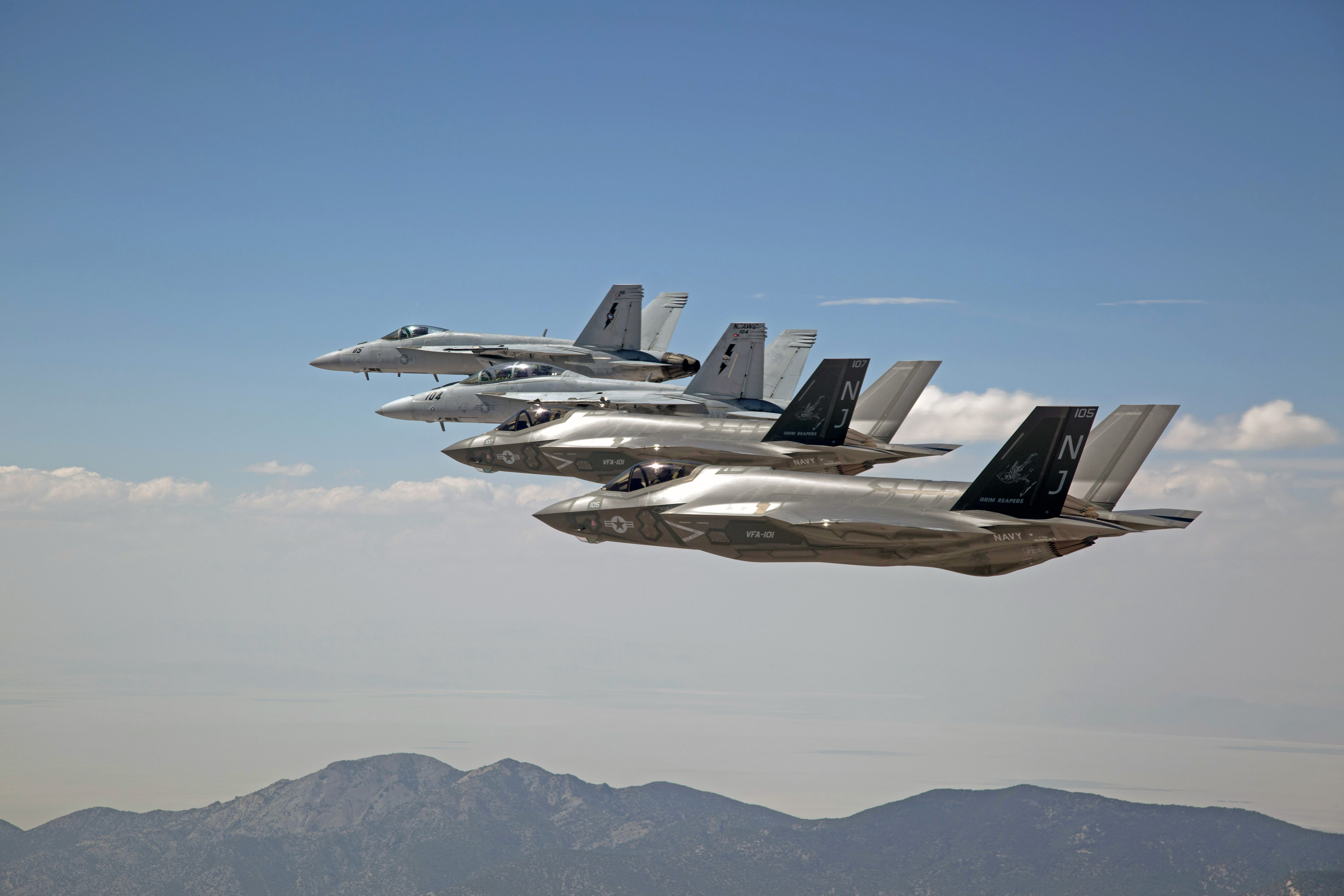 U.S. Lockheed Martin F-35C Lightning IIs, attached to the Strike Fighter Squadron 101 (VFA-101) "Grim Reapers", and an F/A-18E/F Super Hornets attached to the Naval Aviation Warfighter Development Center (NAWDC) fly over Naval Air Station Fallon's (NASF) Range Training Complex. VFA-101, based out of Eglin Air Force Base, Florida (USA), was conducting an F-35C cross-country visit to NASF. The purpose was to begin integration of F-35C with the Fallon Range Training Complex and work with NAWDC to refine tactics, techniques and procedures (TTP) of the F-35C as it integrates into the carrier air wing.